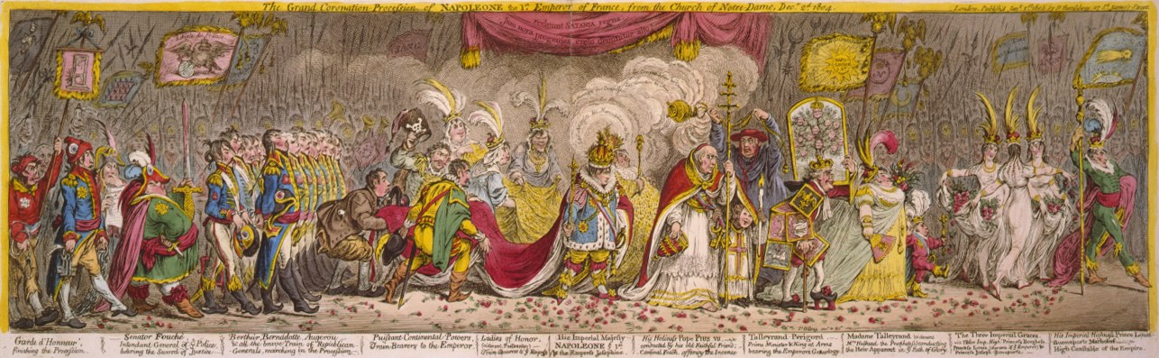 The grand coronation procession of Napoleone the 1st, Emperor of France, from the Church of Notre-Dame, Decr. 2d. 1804 / Js. Gillray inv. & fect. SUMMARY: Caricature showing procession, with Napoleon and Josephine in center, headed by members of the Imperial family, followed by Talleyrand and his wife, and a dejected Pope Pius VII. Napoleon's train is supported by Spain, Prussia and Holland. MEDIUM: 1 print : etching, hand-colored. CREATED/PUBLISHED: [London] : pubd. by H. Humphrey, 1805. According to Wright & Evans, Historical and Descriptive Account of the Caricatures of James Gillray (1851, OCLC 59510372), pp. 239–40, "On the crowning step of Napoleon's ambition. He was proclaimed Emperor of the French, under the title of Napoleon I., on the 20th of May, 1804, and was crowned with extraordinary ceremonies on the 19th of November. The Pope was compelled by the mandate of Buonaparte to repair to Paris, and perform the ceremony of the coronation. On the 19th of November, the Emperor, attended by a numerous military escort, and followed by an immense train of equipages, proceeded to the Cathedral of Notre Dame. There his Holiness performed a solemn service, anointed the Emperor with the sacred unction, and placed the crown upon his head."